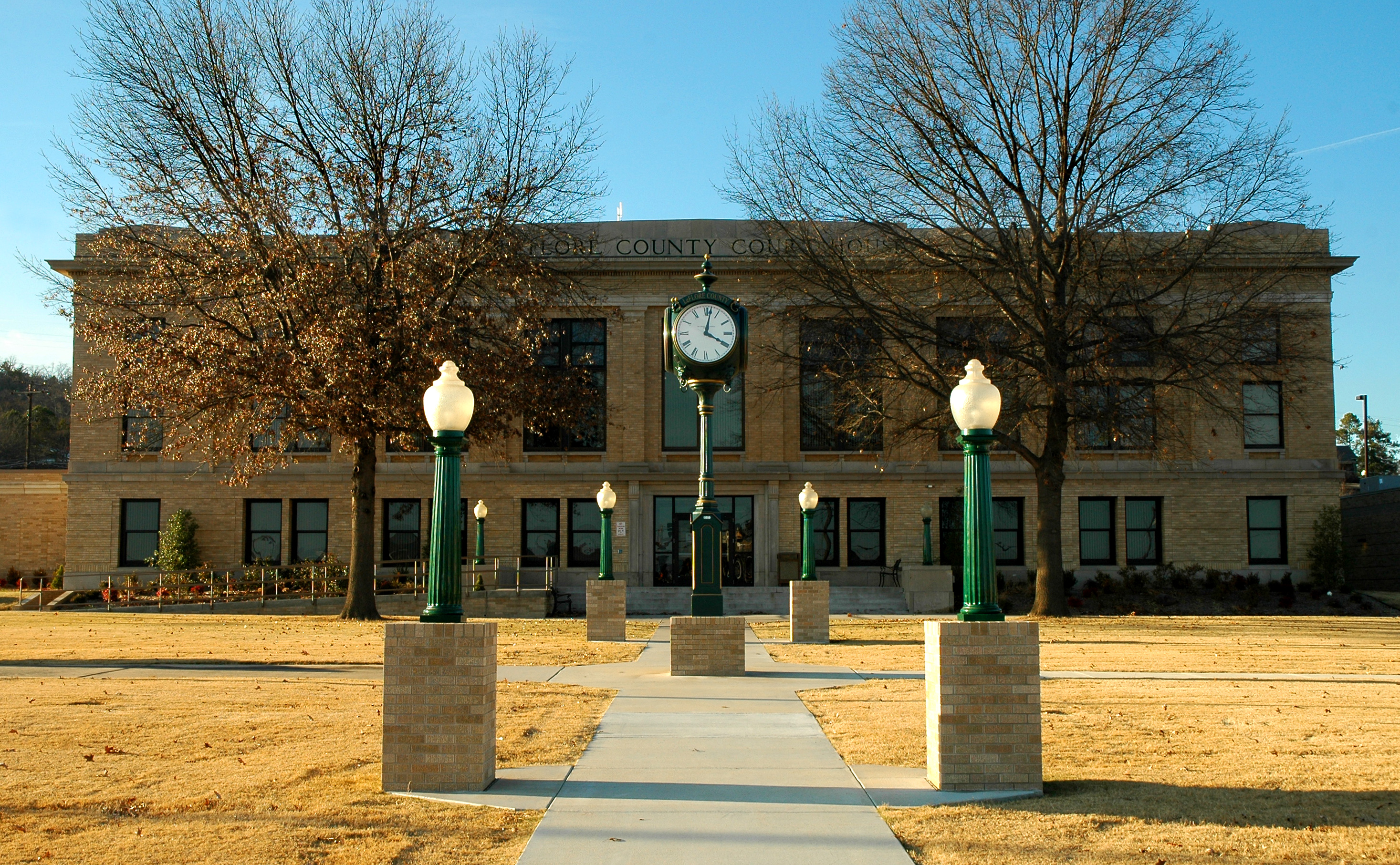 Front of the LeFlore County Courthouse, located on Courthouse Square in downtown Poteau, Oklahoma, United States. Built in 1926, the courthouse is listed on the National Register of Historic Places.